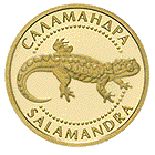 Coin of Ukraine